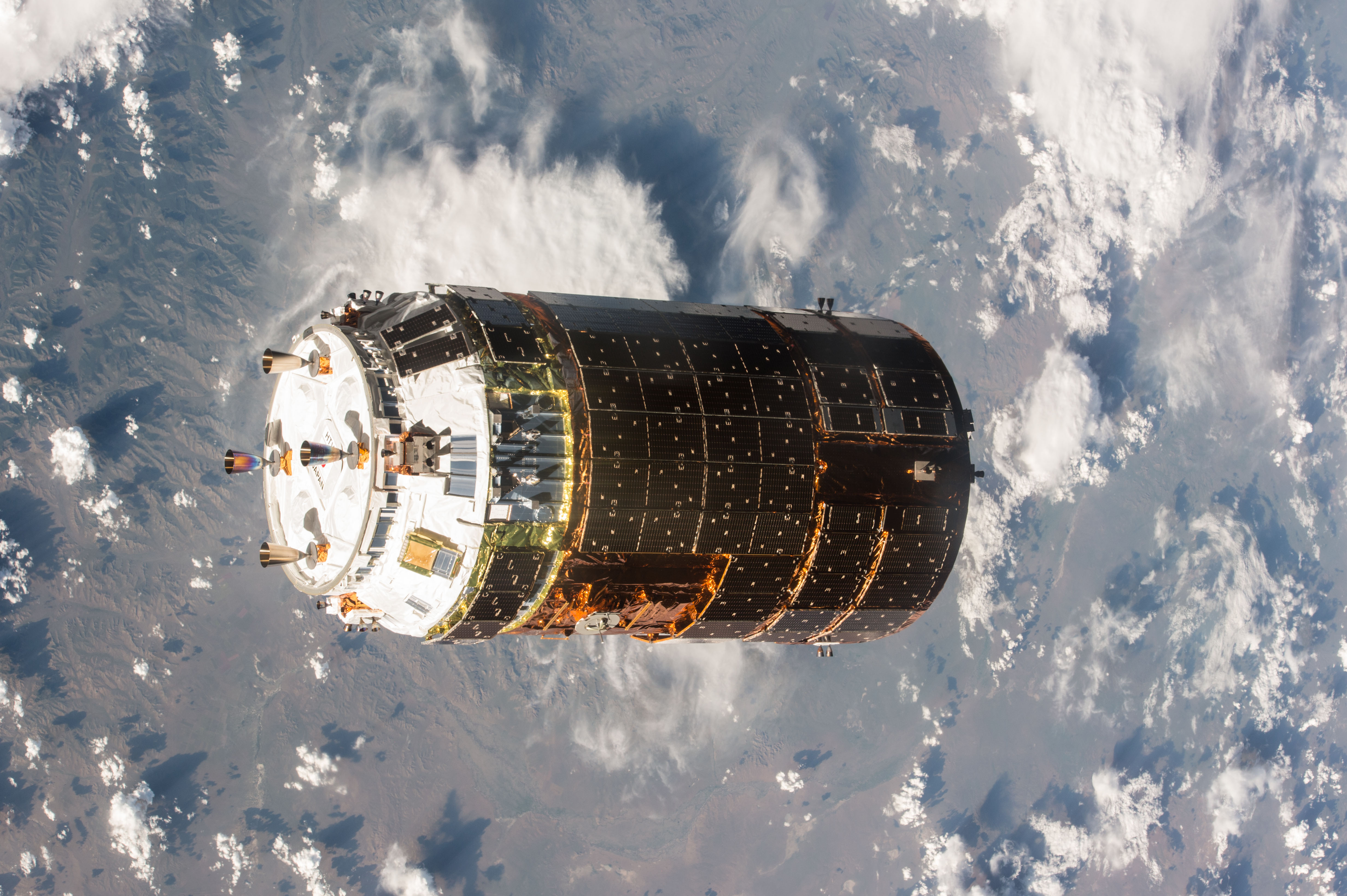 HTV-5 approach towards the International Space Station